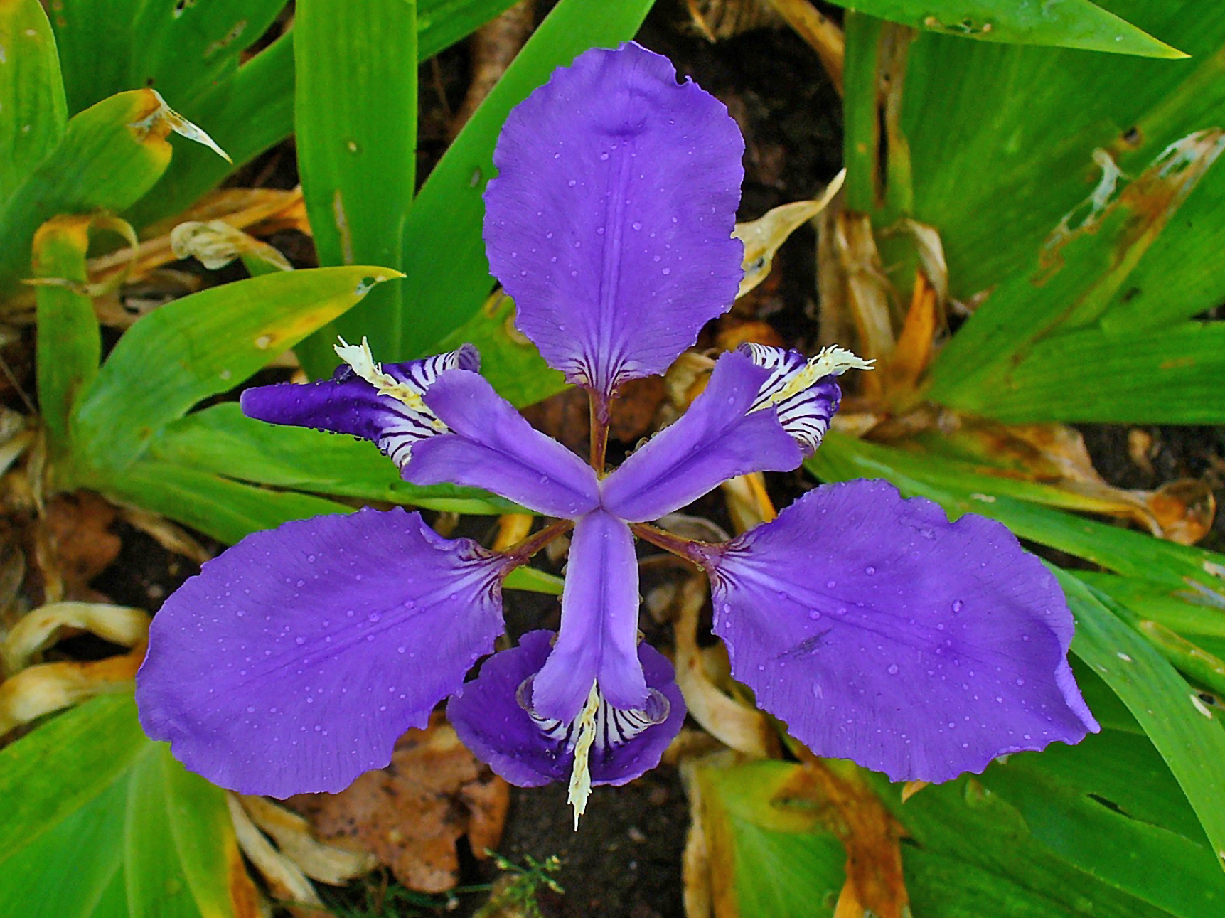 Iris tectorum, Iridaceae, Wall-Iris, flower; Botanical Garden KIT, Karlsruhe, Germany.